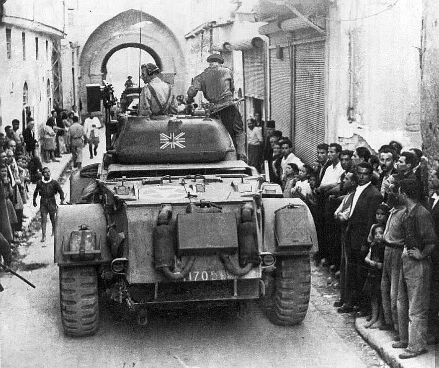 British tanks in the streets of Damascus during the Levant Crisis in 1945